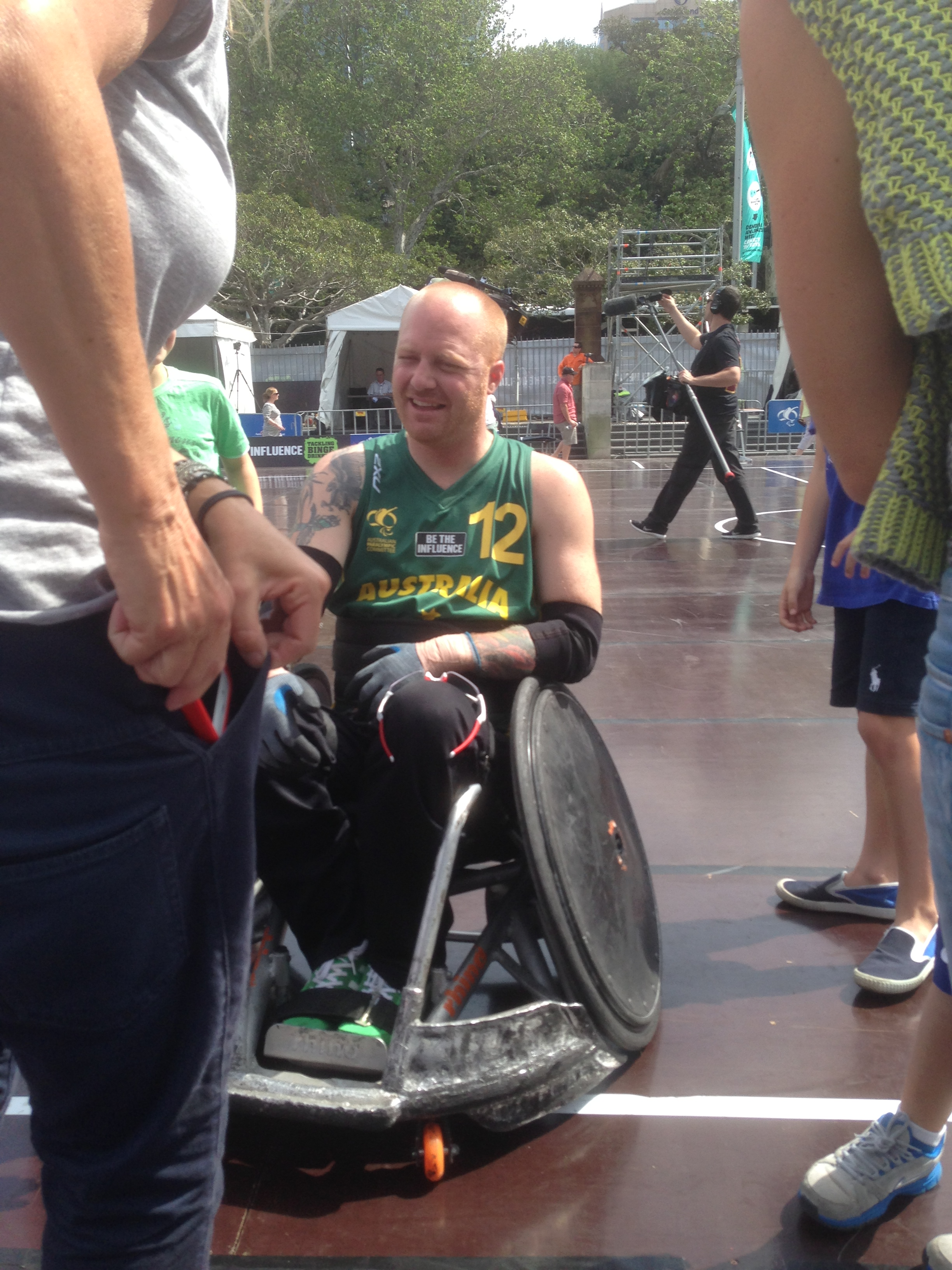 New Zealand-born Australian Wheelchair Rugby player Curtis Palmer at the Wheelchair Rugby Tri-Nations in Sydney, September 2013